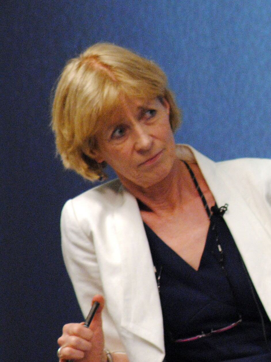 Professor Rosemary Hollis and Martti Ahtisaari Can the Two-State Solution Be Saved? 24 July 2013